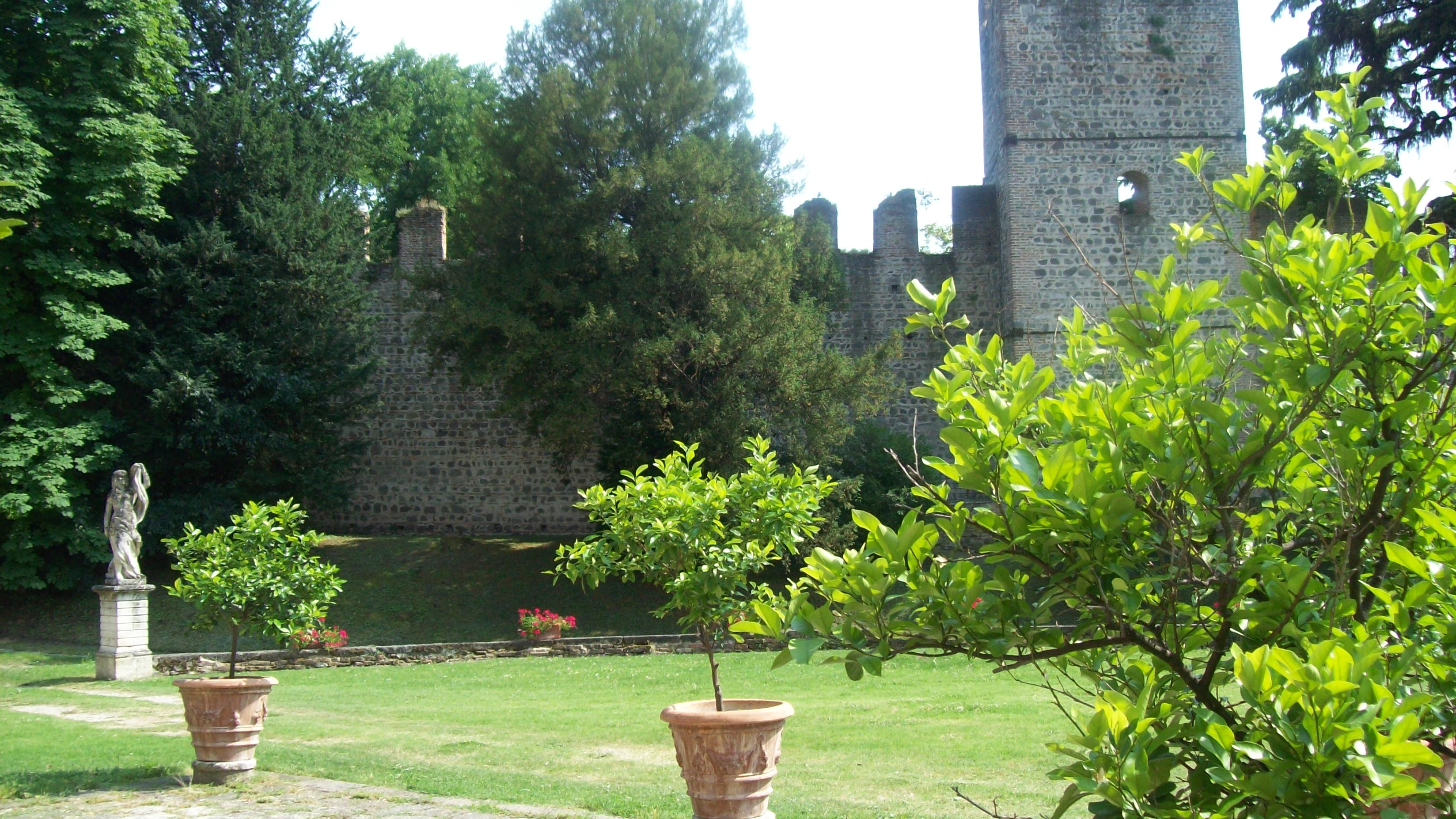 The patio facing the medioeval castle of Este